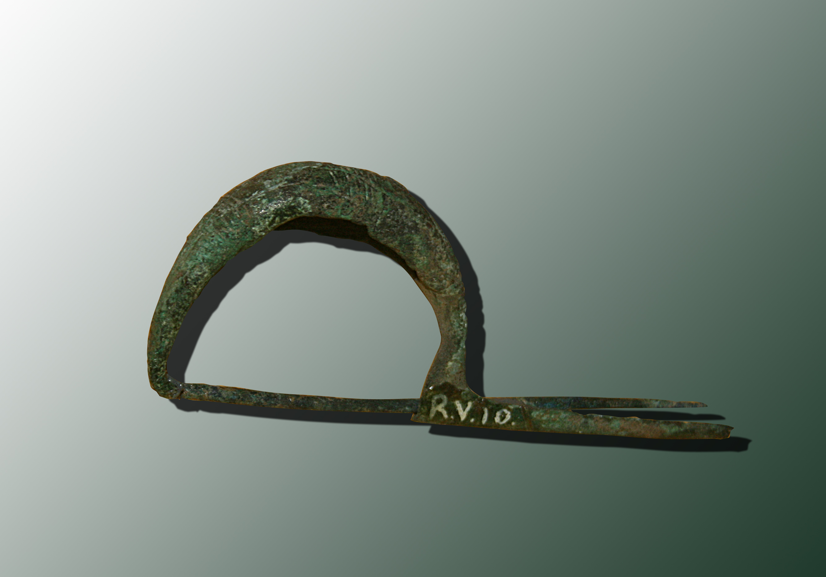 Fibula Stage : Hallstatt culture (to - 1200 years from - 475 years Before the Current Era) Place of discovery : Sceaux-du-Gâtinais, Loiret, France